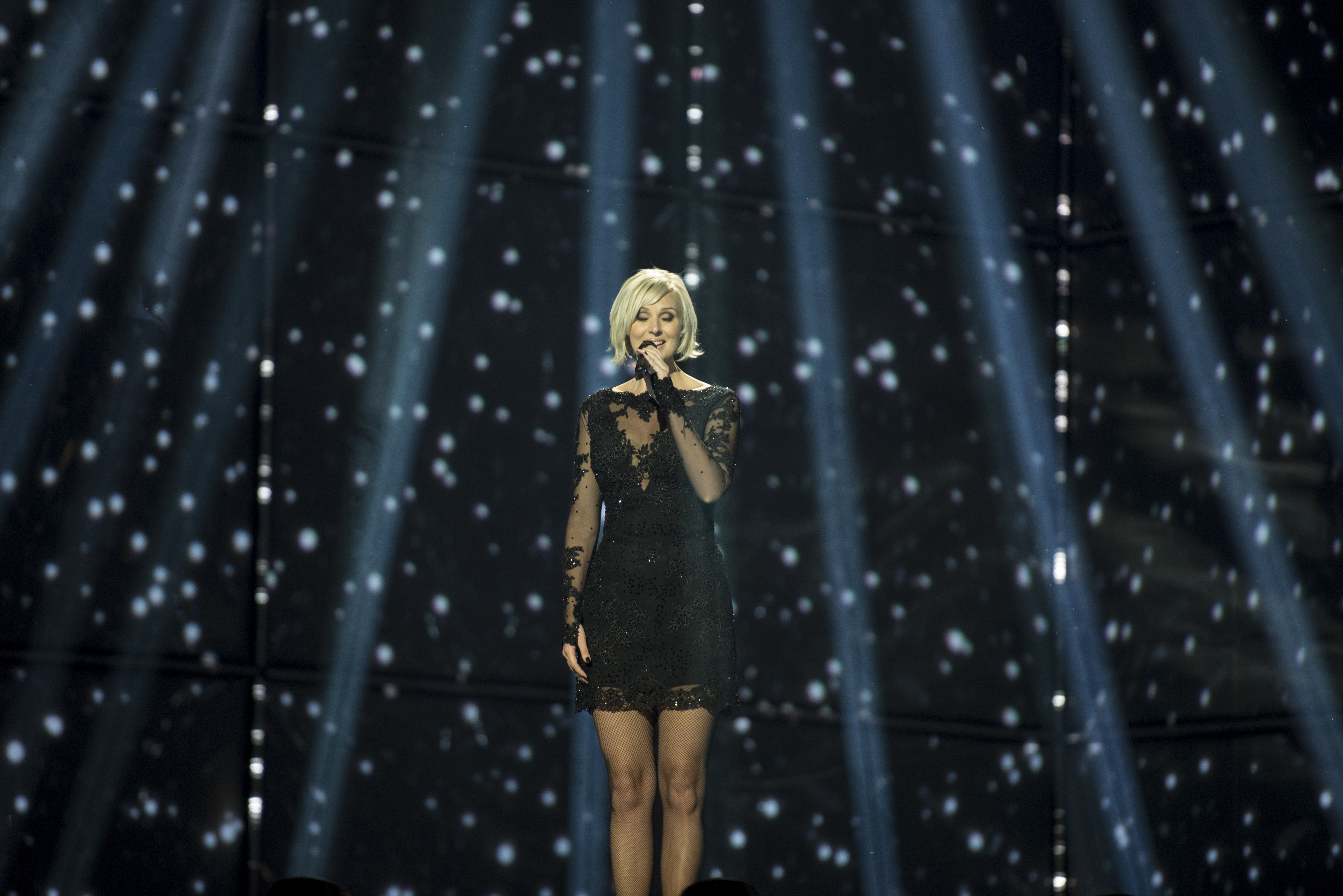 Sanna Nielsen representing Sweden with the song "Undo" during the first dress rehearsal of the first semi final of the Eurovision Song Contest 2014 Copenhagen. (Help translate this text)